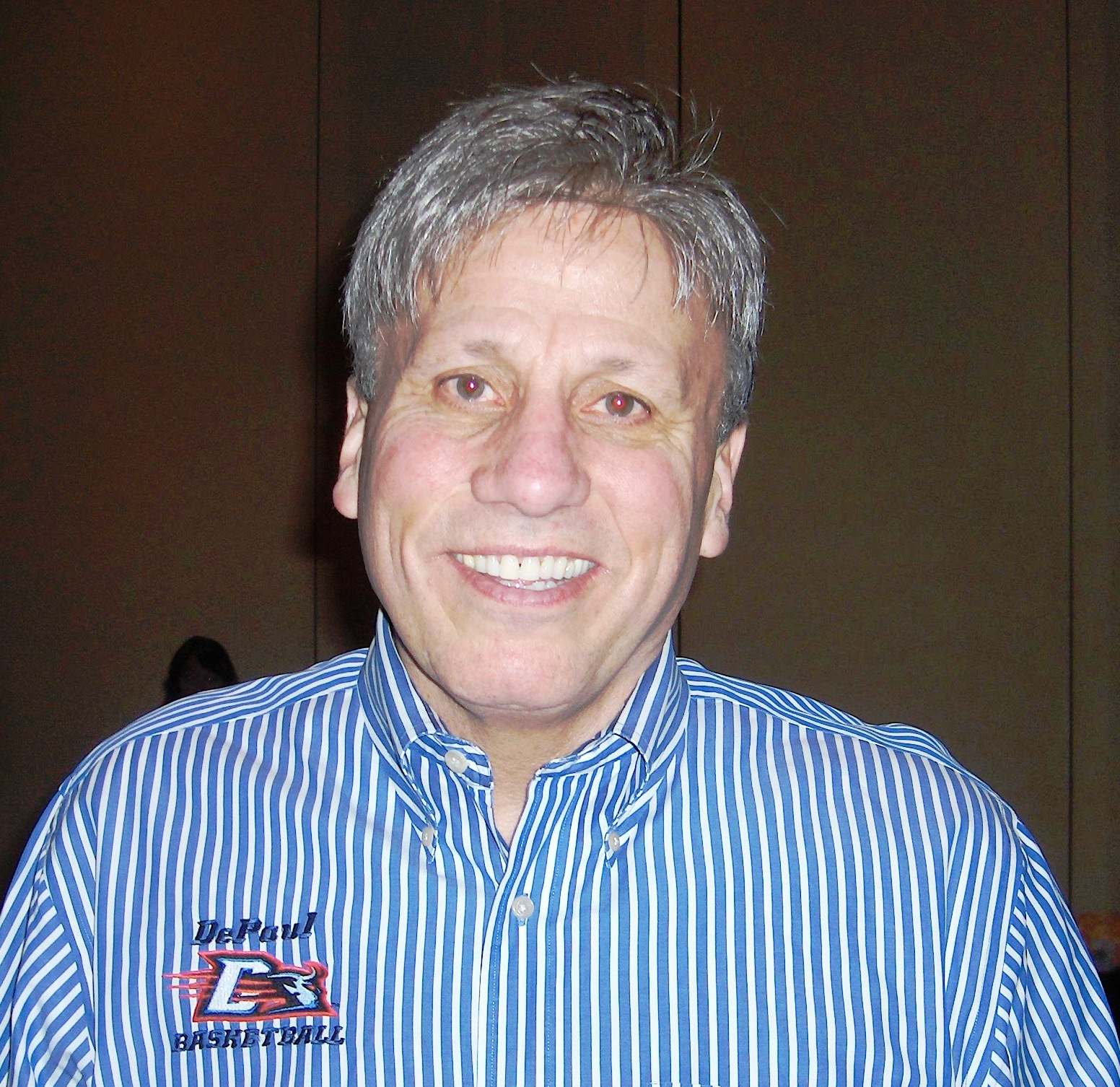 Photo of Doug Bruno taken at the Inaugural WBCA Show, Monday 4 April 2011 in the Sagamore Ballroom of the Indiana Convention Center, Indianapolis Indiana.